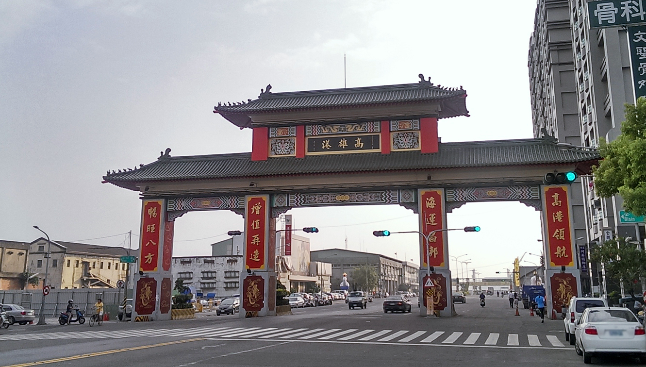 Showing the paifang of Kaohsiung Port.The photo taken from Chi-Shian 3rd Road in Kaohsiung City.